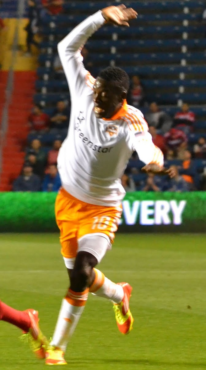 Je-Vaughn Watson with the Houston Dynamo